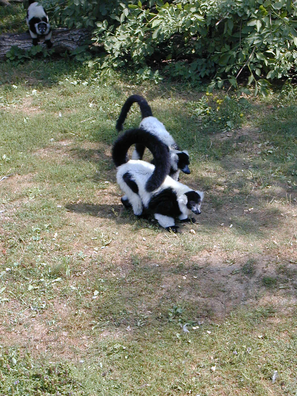 Ruffed lemur (Varecia variegata) at the Touroparc zoological garden in Romanèche-Thorins (France).